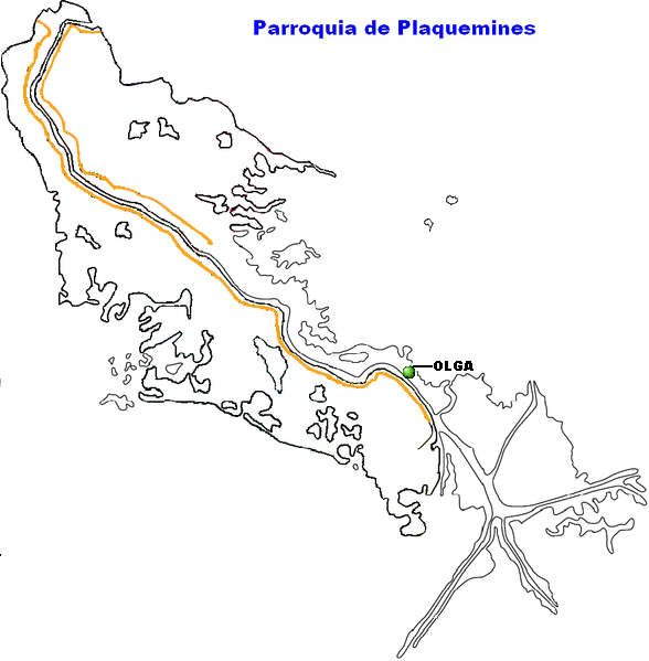 Olga mao locator